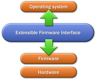 Simple version of the Extensible Firmware Interface chart. Please contact me if this image needs translation or updating.